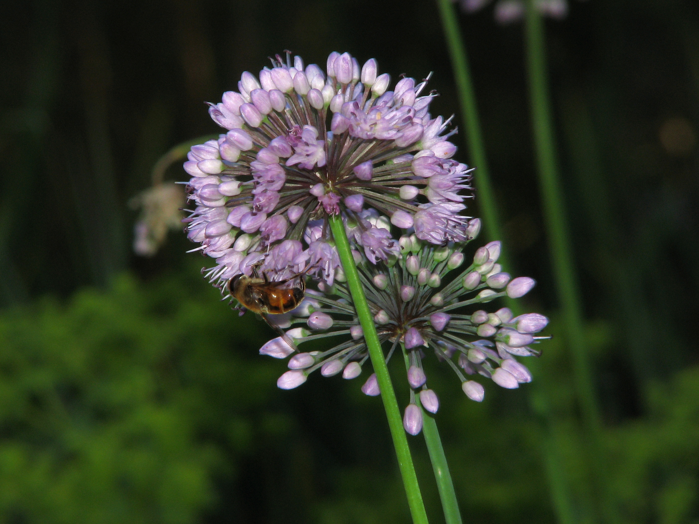 German garlic (Allium senescens) and bee.